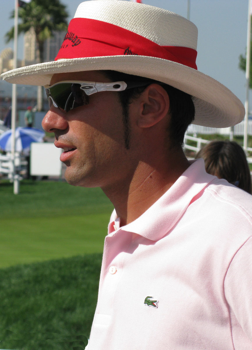 alvaro quiros dubai desert classic 2009